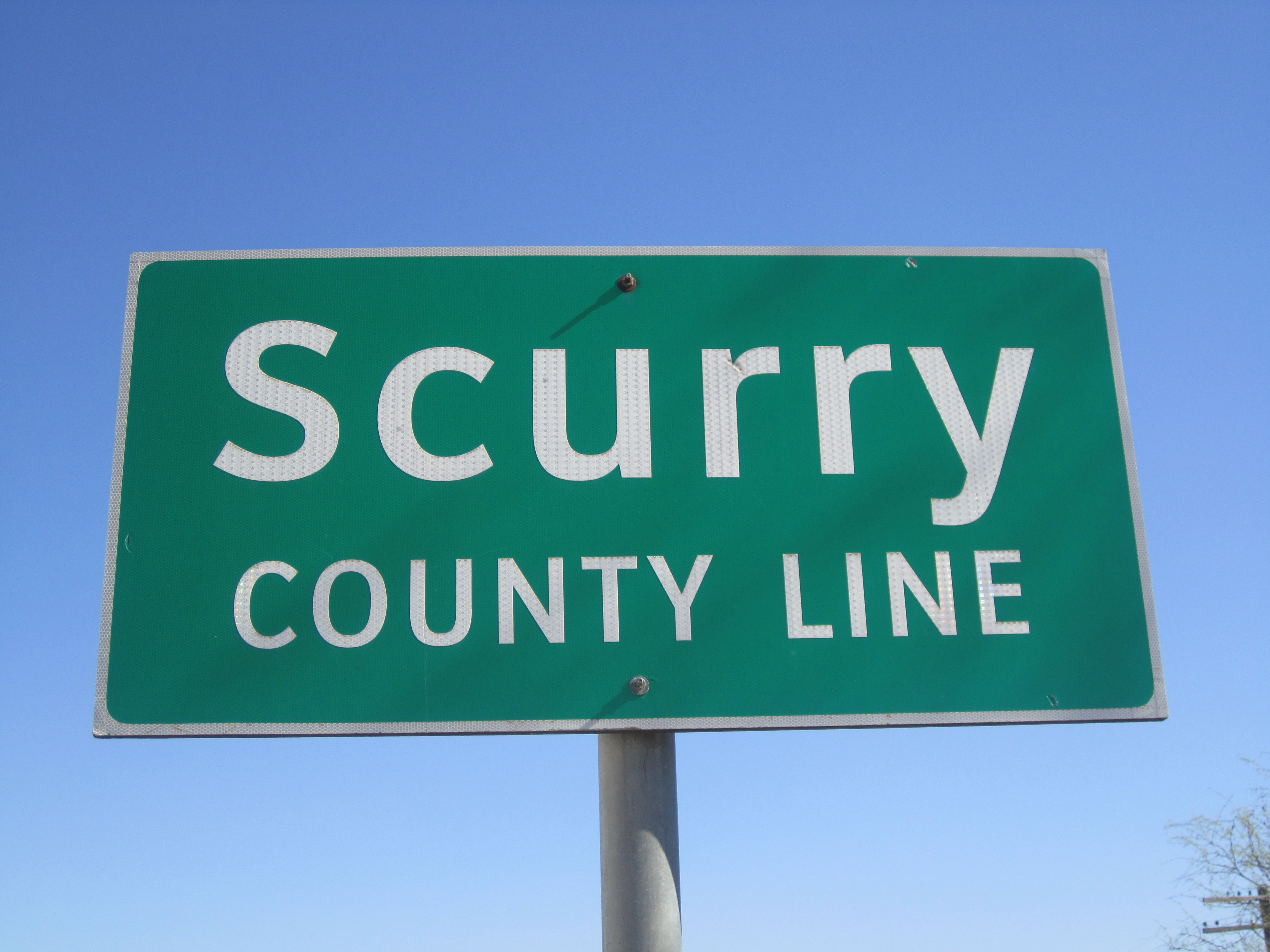 I took photo in Scurry County, TX, with Canon camera.